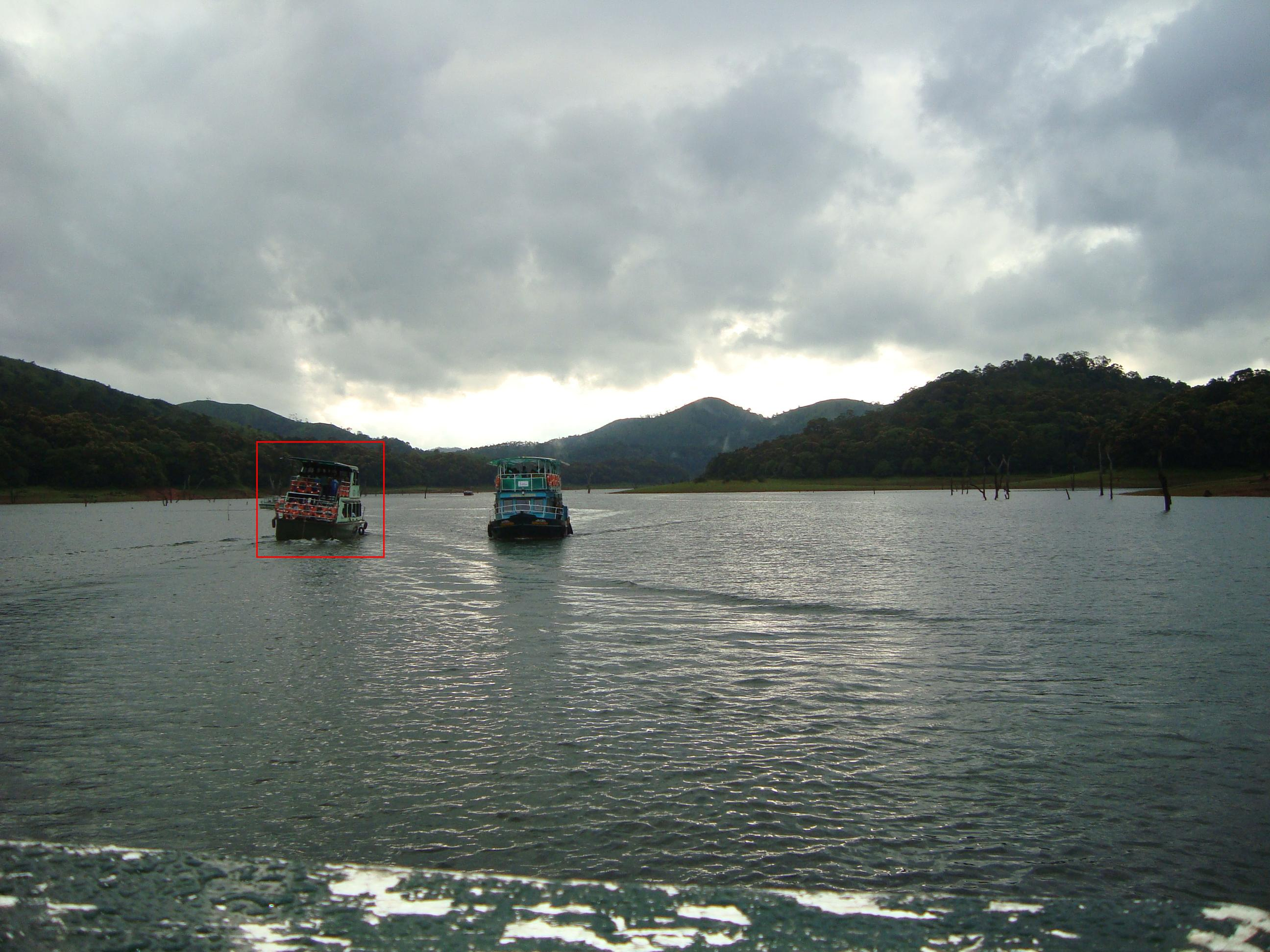 Image of 2 boats before the actual event